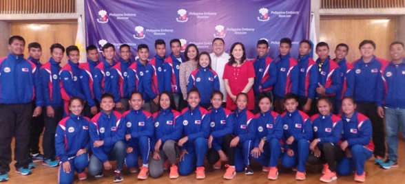 The Philippine Canoe Kayak Dragonboat Federation (PCKDF) team which participated at the 2016 International Canoe Federation (ICF) Dragon Boat World Championships with Ambassador Carlos D. Sorreta (in white) at the Philippine Embassy in Moscow.